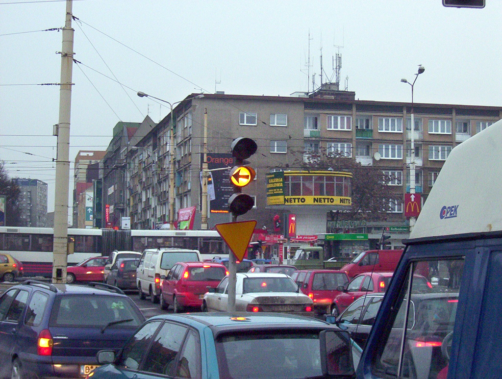 Traffic Jam in Szczecin.